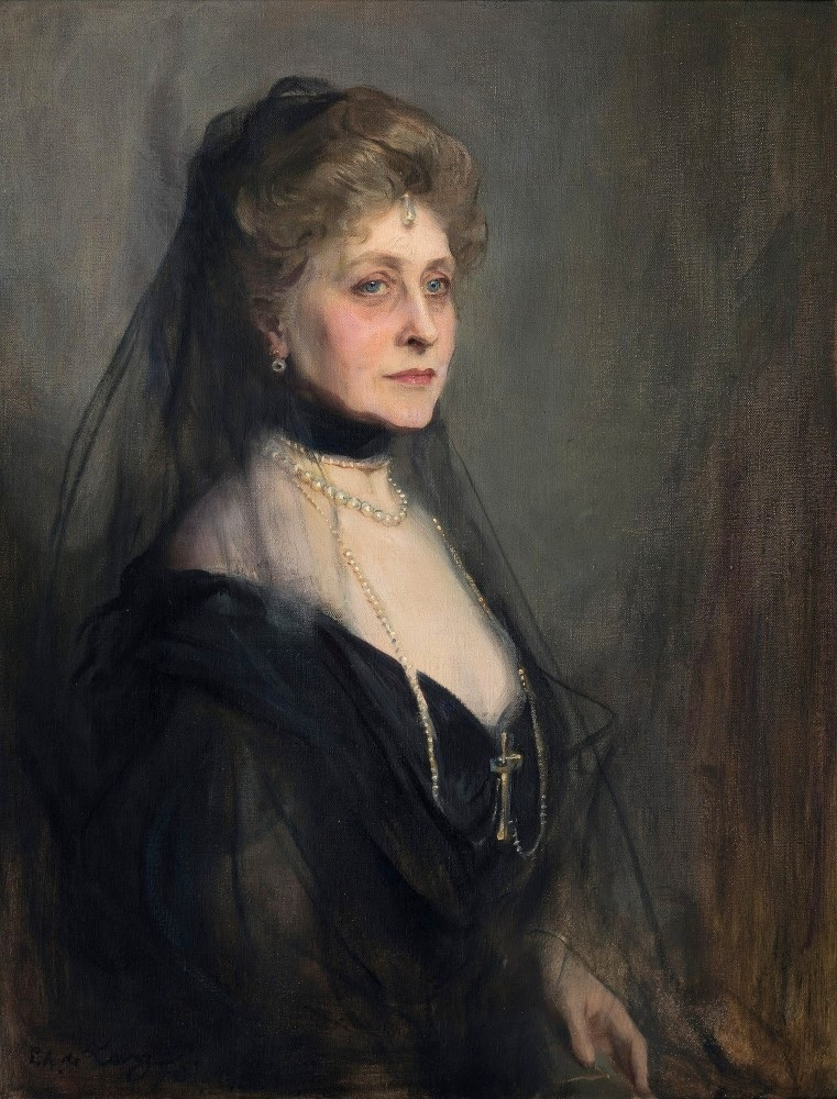 The Princess Louise (born Louise Caroline Alberta),also known as Marchioness of Lorne and Duchess of Argyll